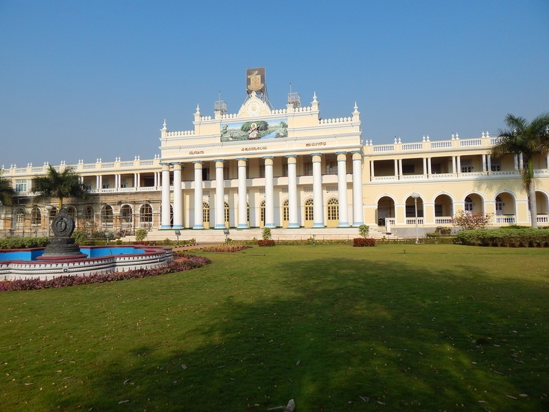 Crawford Hall Mysore